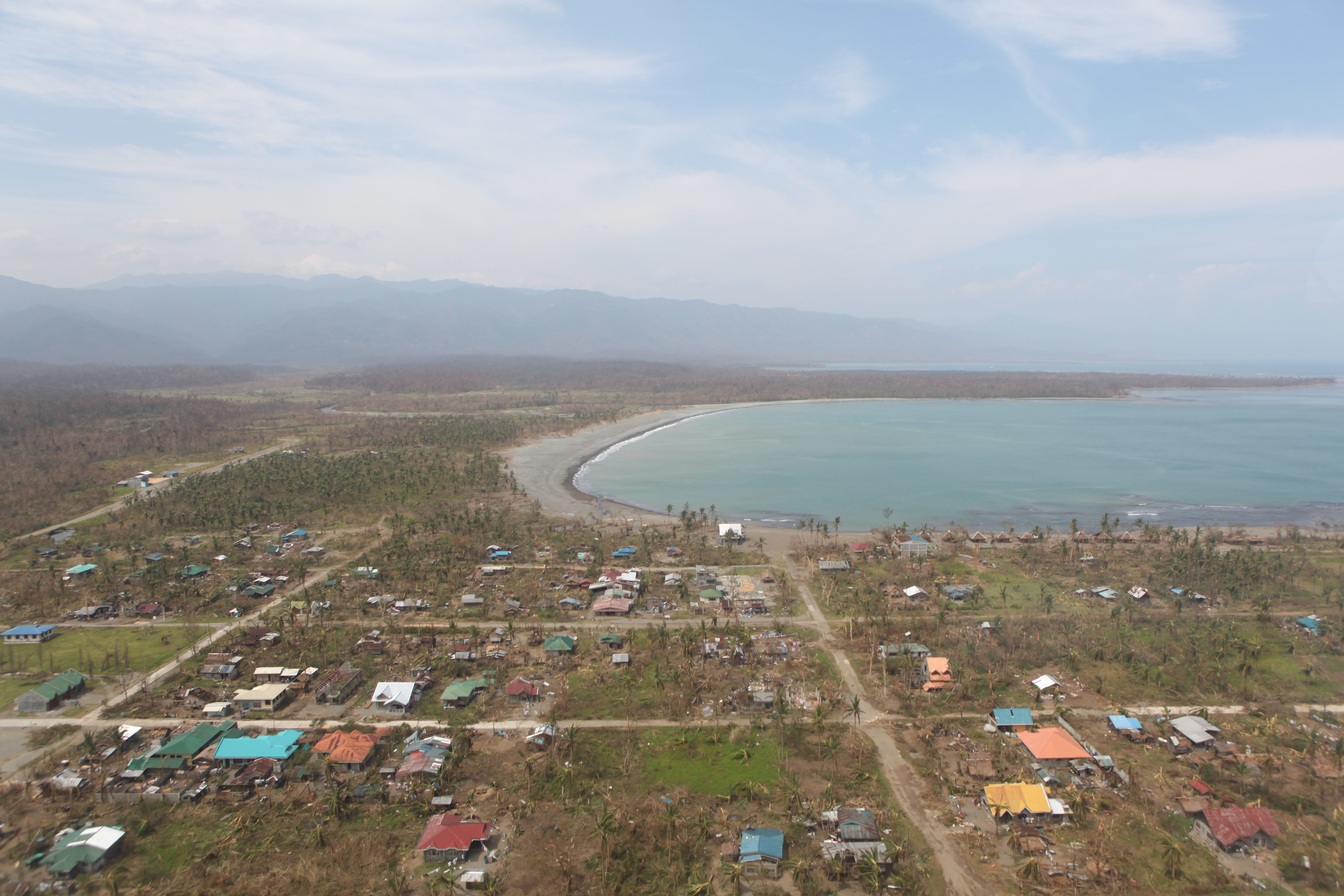 U.S. Marines survey Divilacan, Isabela province, Philippines, from the air Oct. 22, 2010. U.S. and Filipino military personnel conducted initial recovery assistance in the areas affected by Super Typhoon Megi.